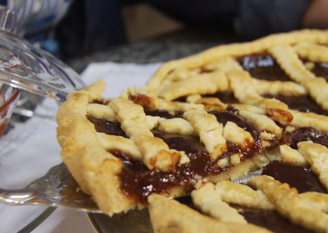 Pastafrola is made in its paraguayan way: cookie base with guava jam.